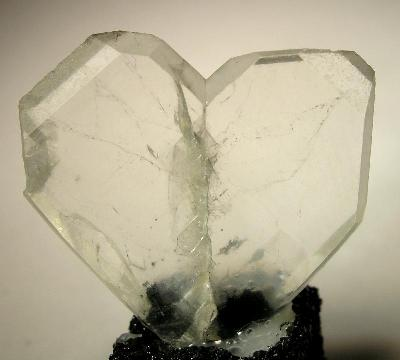 Quartz Locality: Naru-shima, Gotō-Islands, Japan Size: 1.7 x 1.6 x 0.2 cm Quartz (Japan Law Twin) This crystal has wonderful symmetry, and is a terrific example of the species. one natural contact along one edge does not detract at all.